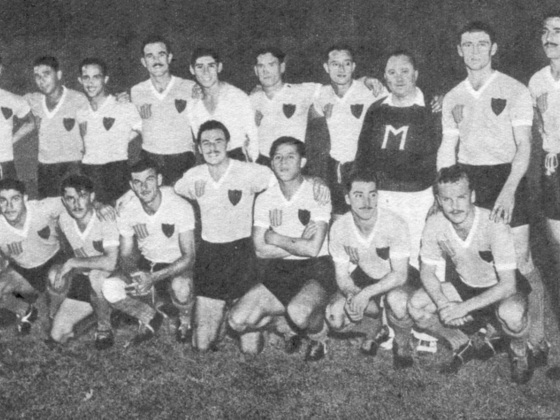 Selección Rosario 1944